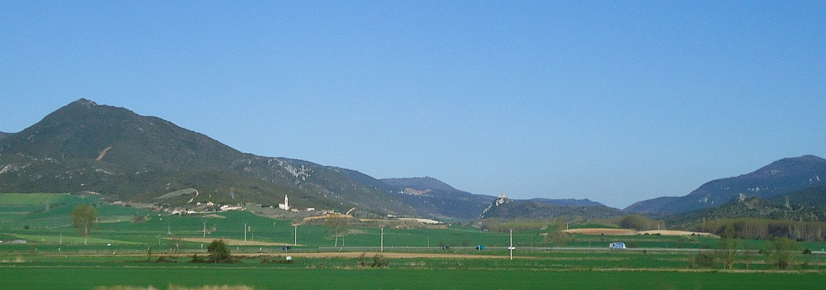 Santa Cruz del Fierro village and Txulato mountain